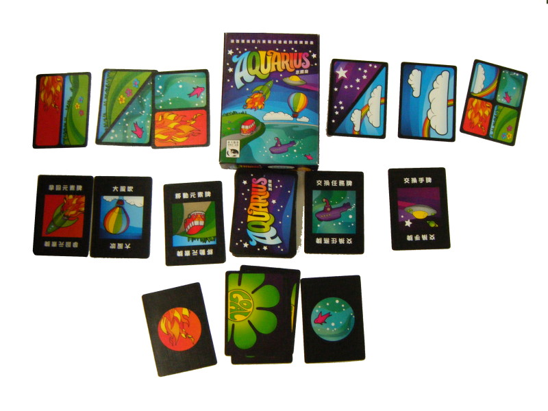 The game of Aquarius.